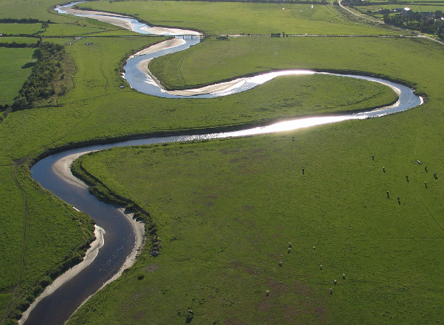 Meandering River Wampool